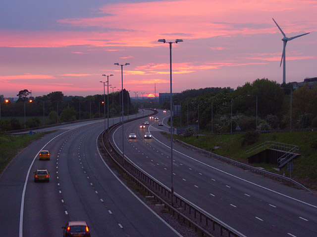 Looking west from junction 11 at sunset. The turbine at Green Park is in the grid-square to the northwest.